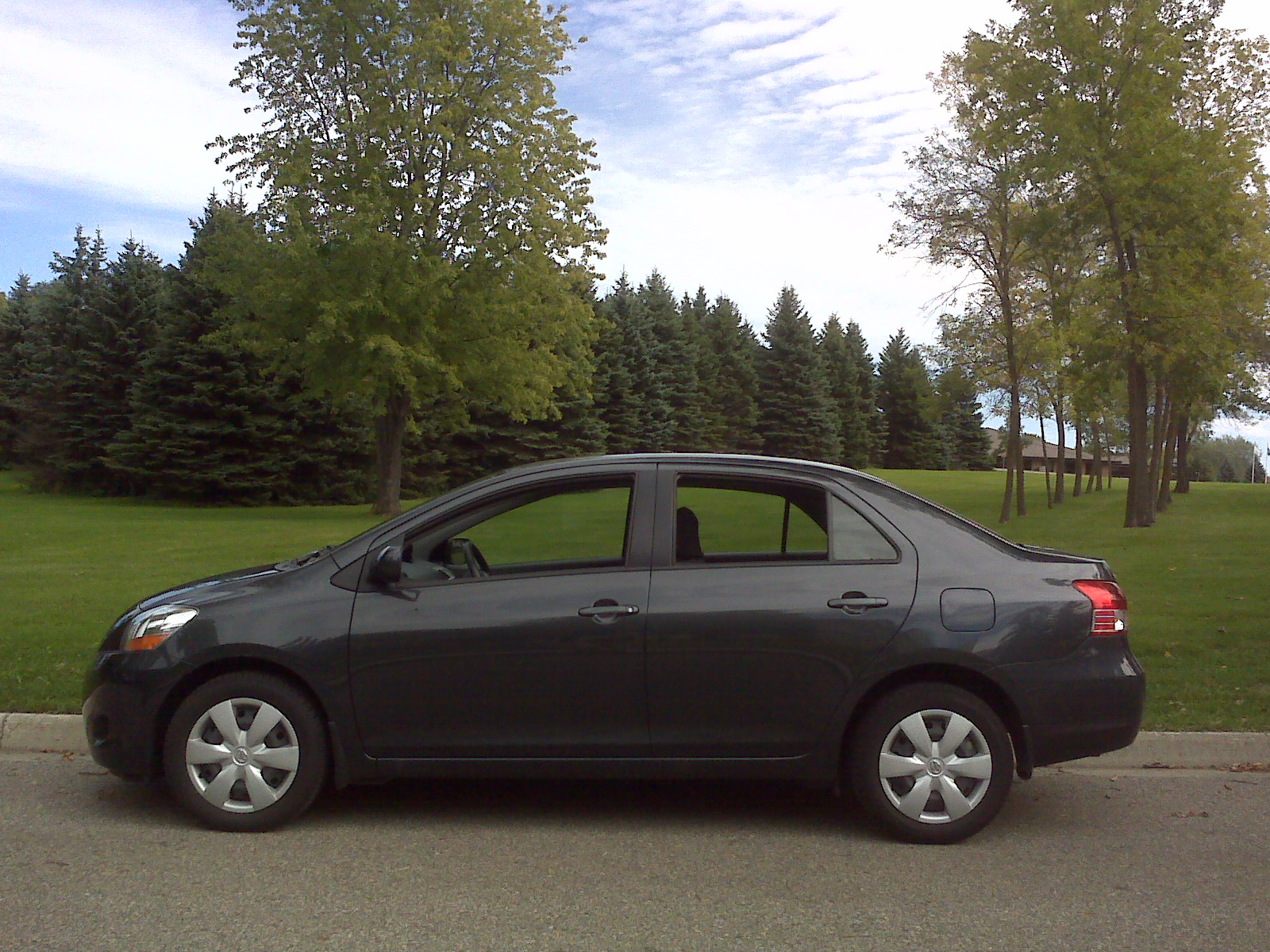 This is a photograph of a dark grey 2007 Yaris sedan. The Toyota Echo, the predecessor to the Yaris, has 2010 Auto Reliability GPA of a perfect 4.00 over a 6-year data history. or